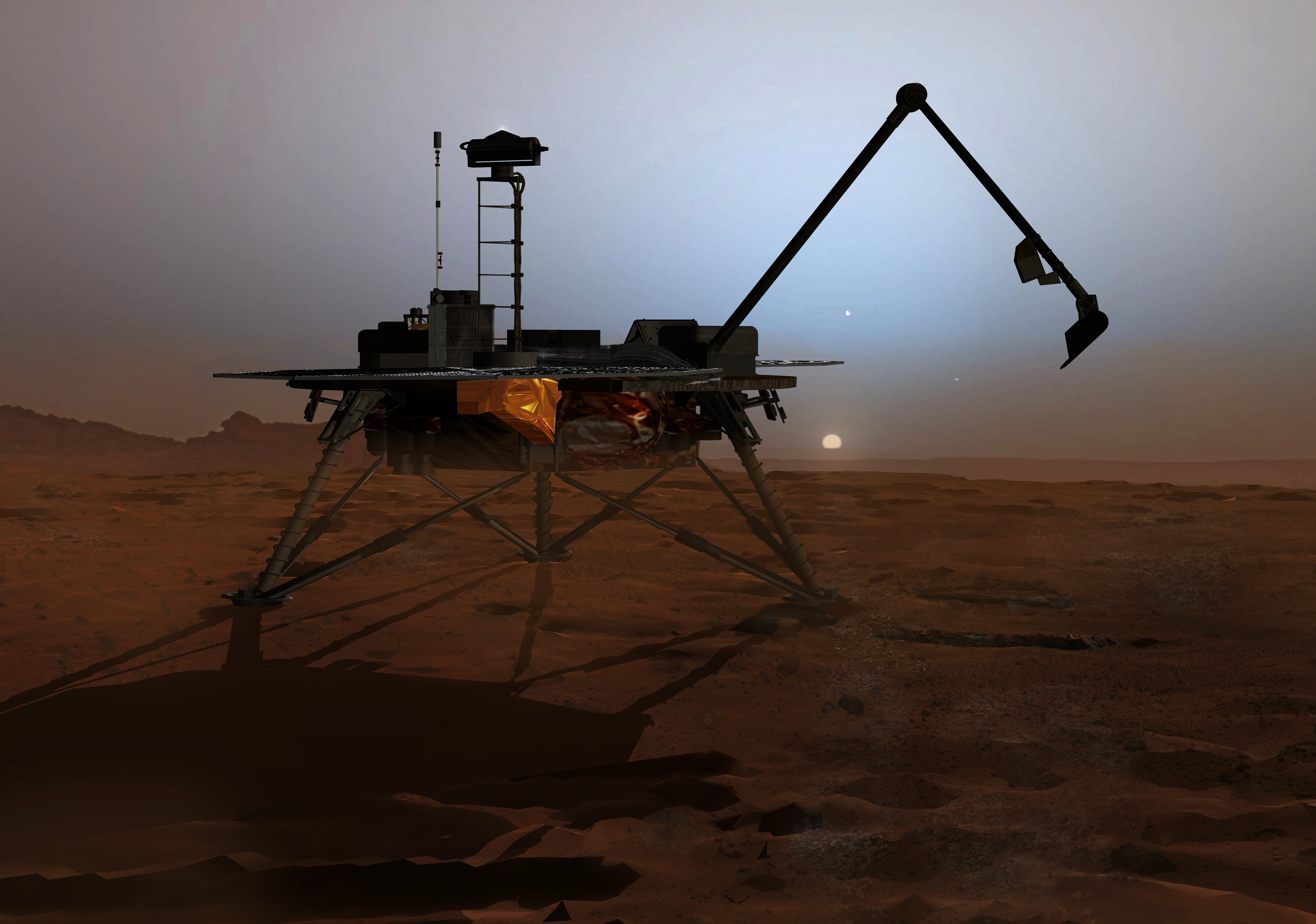 In this artist's concept illustration, NASA's Phoenix Mars Lander begins to shut down operations as winter sets in. The far-northern latitudes on Mars experience no sunlight during winter. This will mark the end of the mission because the solar panels can no longer charge the batteries on the lander. Frost covering the region as the atmosphere cools will bury the lander in ice. As planned, the Phoenix lander, which landed May 25, 2008 23:53 UTC, ended communications in November 2008, about six months after landing, when its solar panels ceased operating in the dark Martian winter.